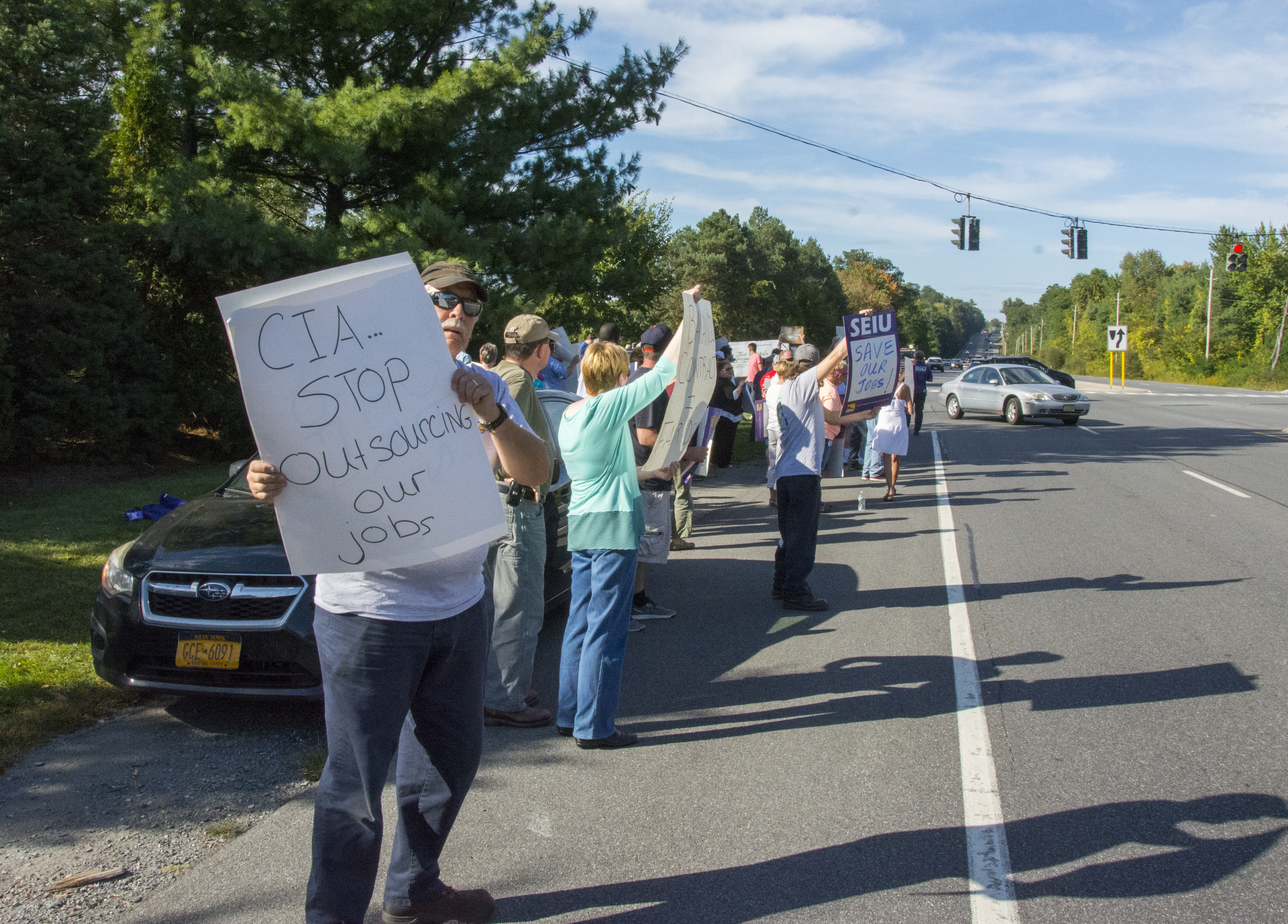 Culinary Craft Association protest against the CIA, Sept. 22, 2017.